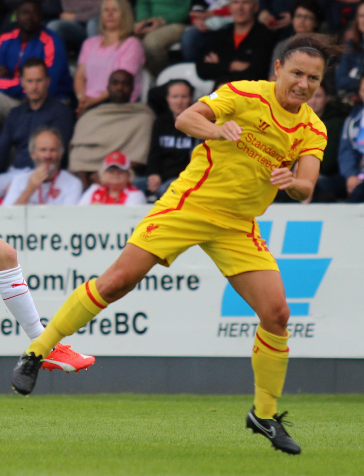 Natalia Pablos Sanchon of Arsenal Ladies fires a shot at goal during the game against Liverpool.